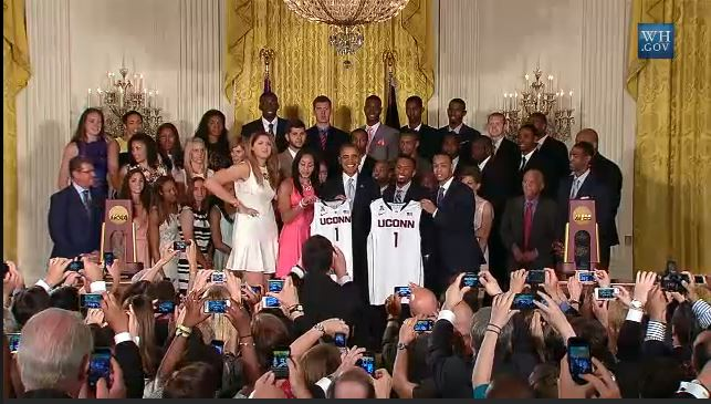 2014 UConn National Championship teams at the White House, a screen capture of the White House feed, in public domain.